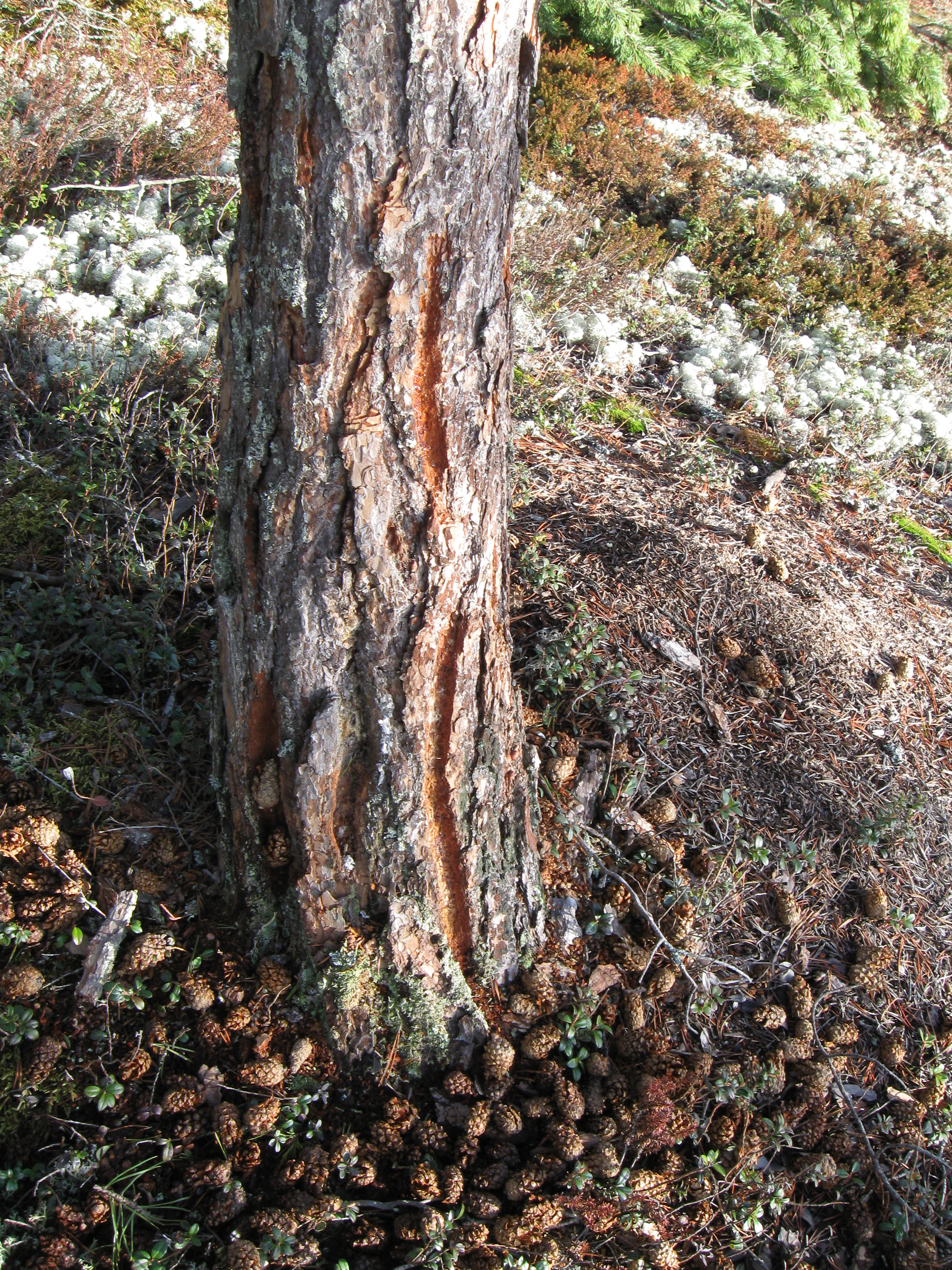 A "workshop" used by a Great Spotted Woodpecker (Dendrocopos major) for removing seeds from pine cones.